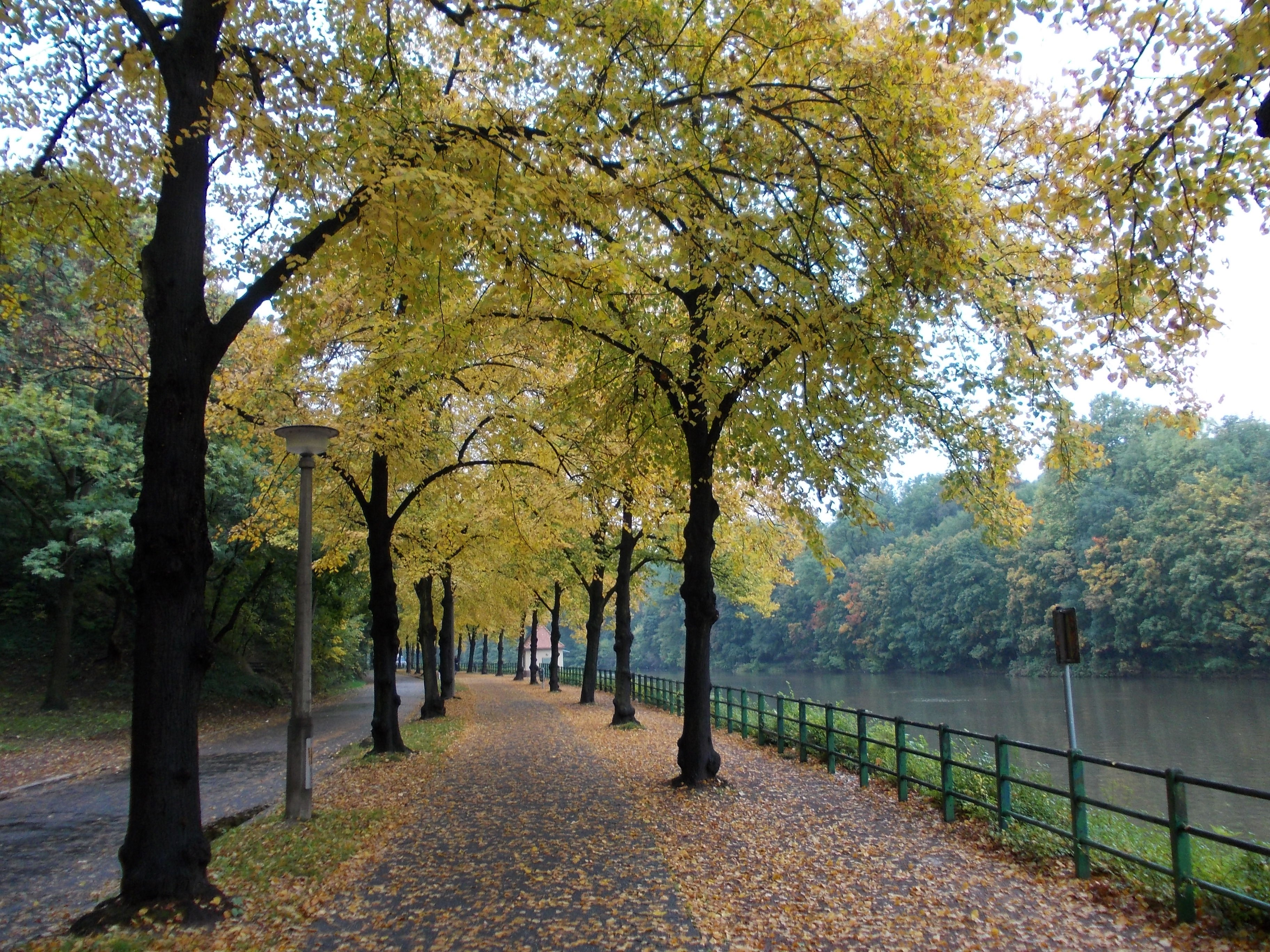 Riveufer in Halle/Saale (Saxony-Anhalt) in Autumn